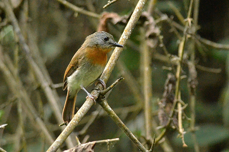 White-bellied blue flycatcher female, Ganeshgudi, Karnataka, India